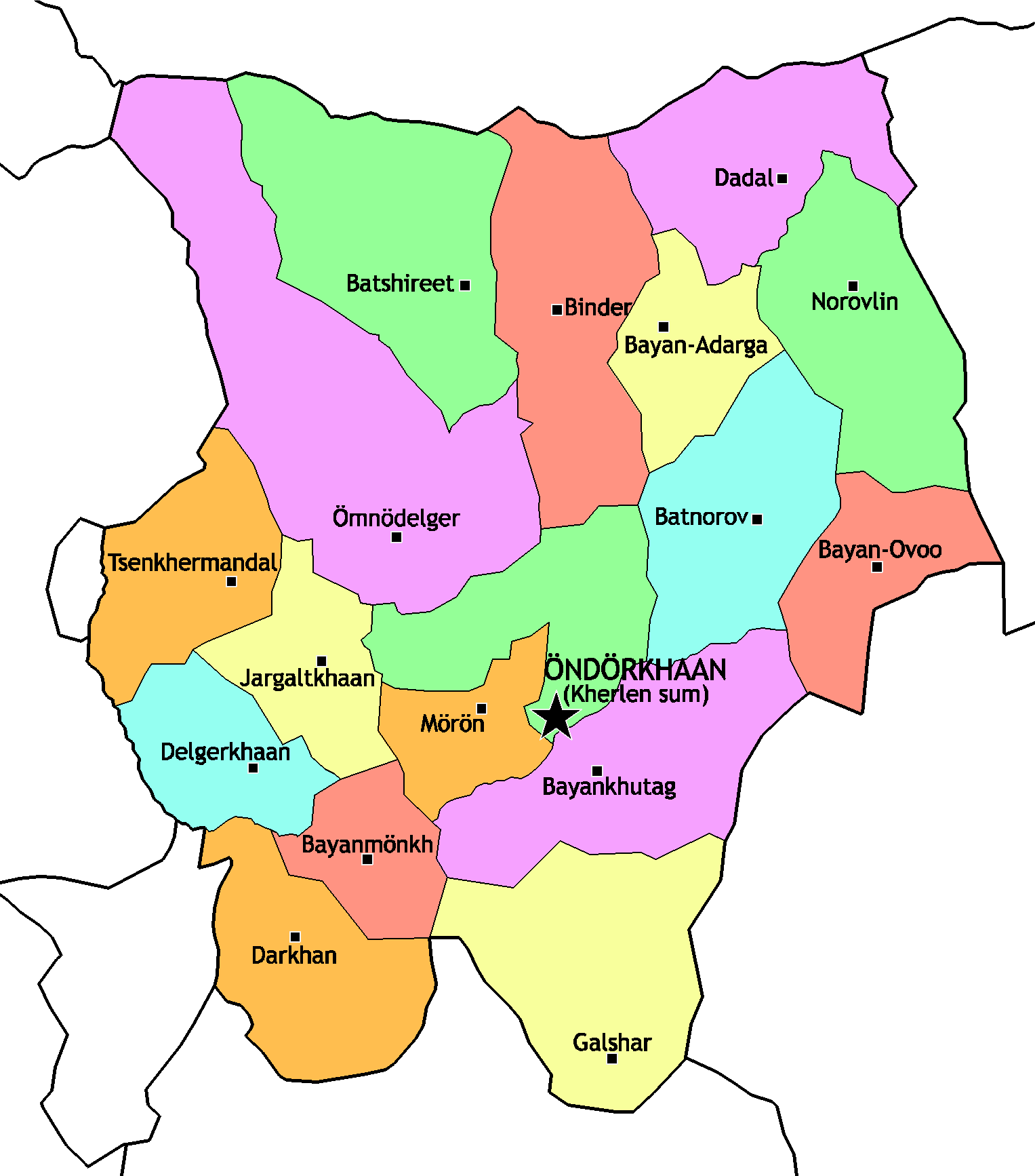 Map of the Khentii aimag with the sums